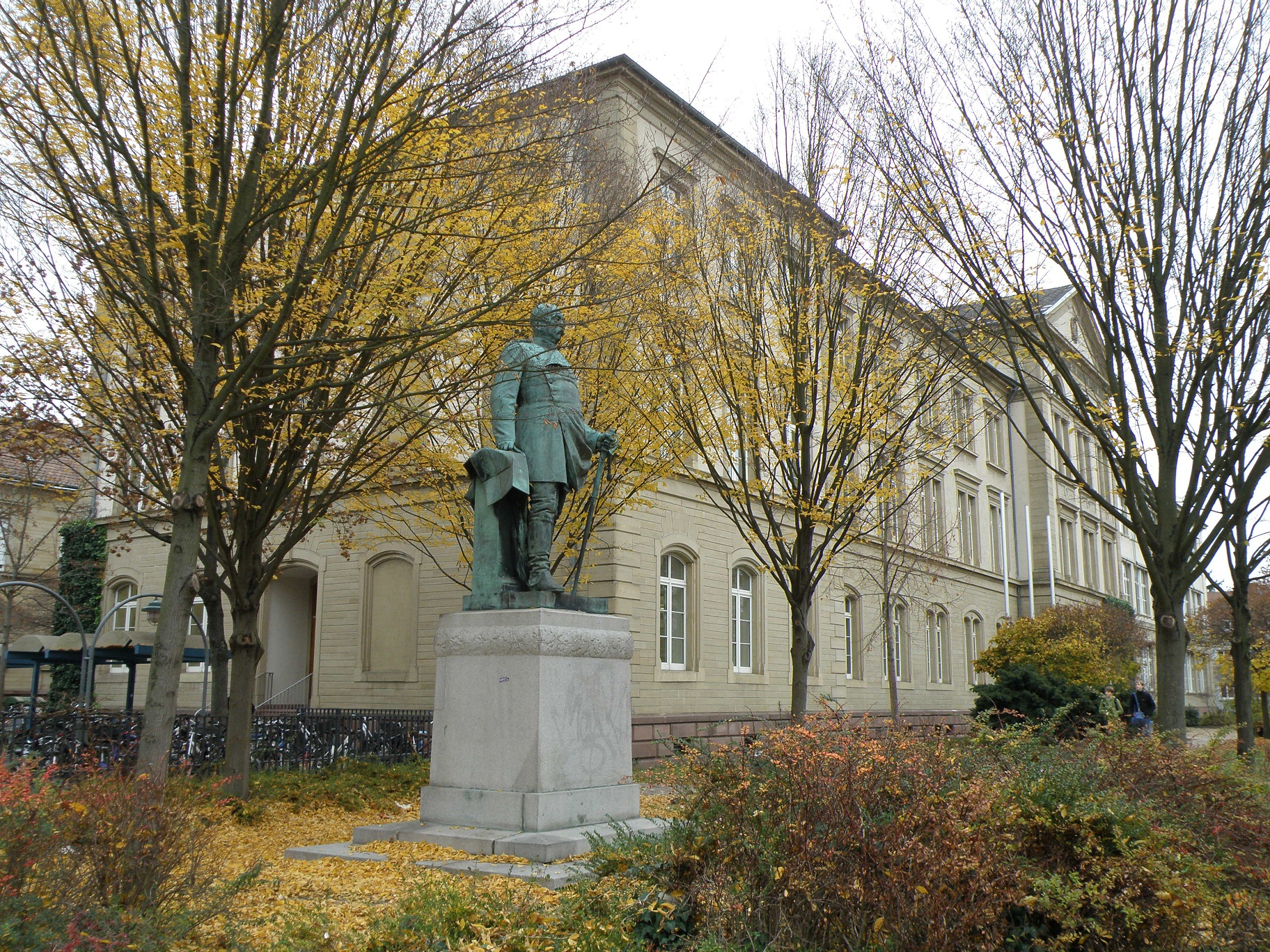 Bismarck-Karlsruhe-Herbst-und-Bismarck-Gymnasium